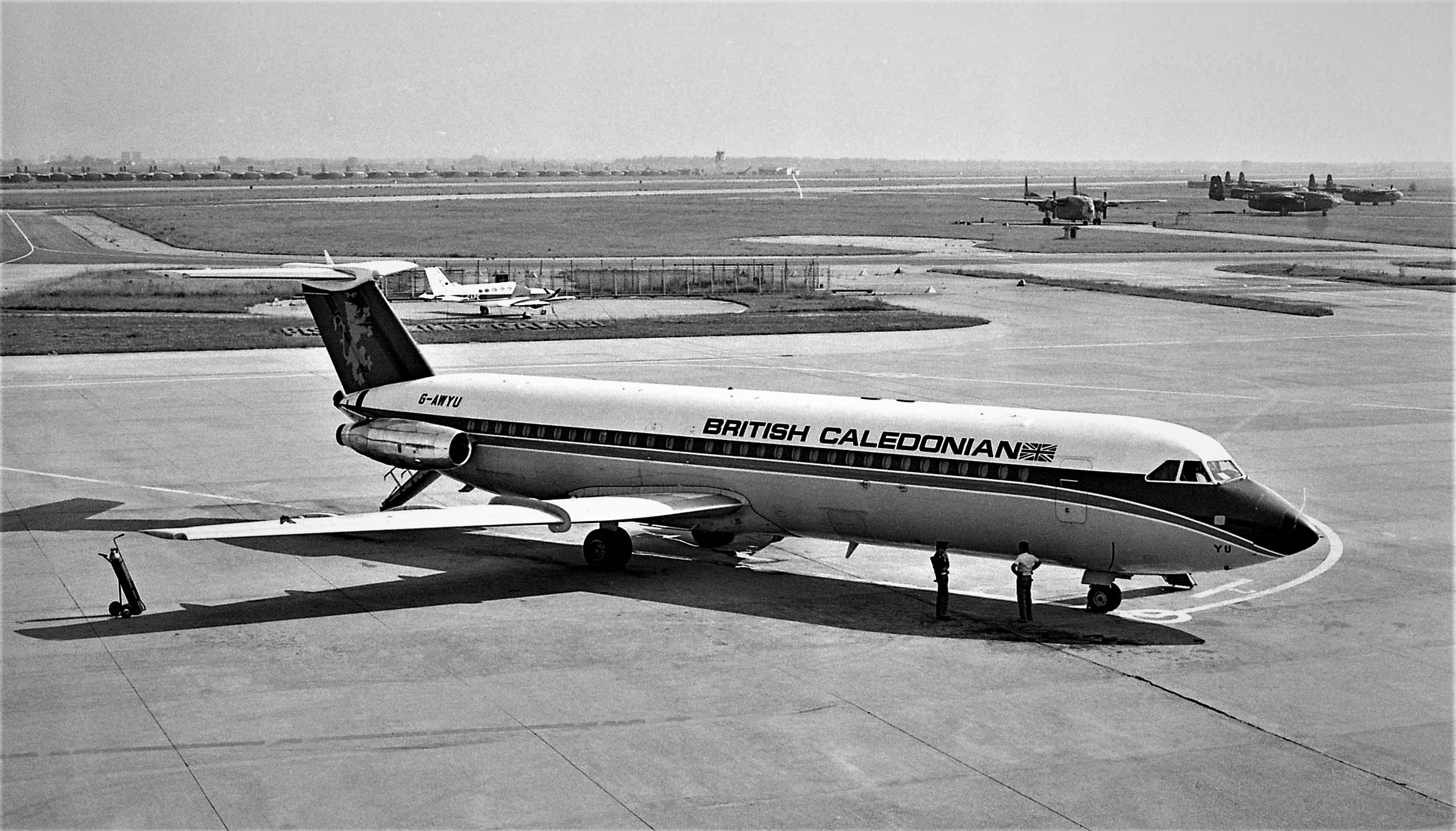 Italy, Pisa International Airport. British Caledonian BAC 1-11-501EX, G-AWYU, c/n 177, first flight in 1969-06-10. Delivered to British United Airways in 1969-06-17. Sold to British Caledonian Airways as “Isle of Colonsey”. In April 1988 merged into British Airways. Leased to Ryanair in June 1993 and returned in March 1994. Sold to Hewa Bora Airways in November 1994 and registered 9Q-CKI. Stored in Kinshasa in 1997 then scrapped in 2005.